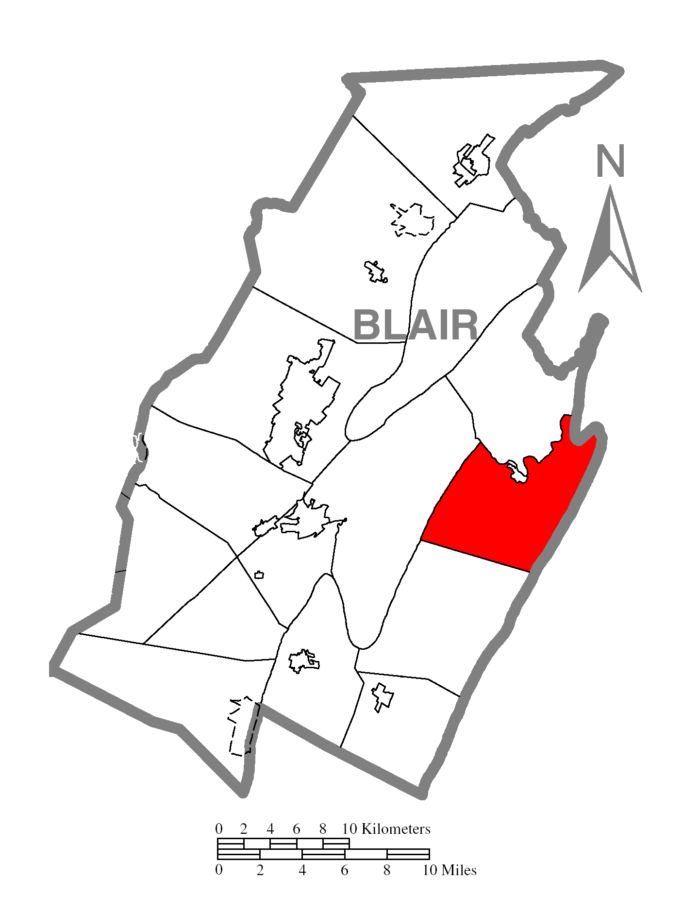 A map of Blair County showing Woodbury Township, Pennsylvania (alternate) highlighted on the map.